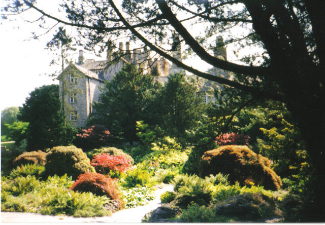 Sizergh Castle & Garden is a castle, stately home and garden in Sizergh, Cumbria, England, about four miles south of Kendal, and in the care of the National Trust.